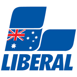 The current Liberal Party of Australia Logo as of 2015.